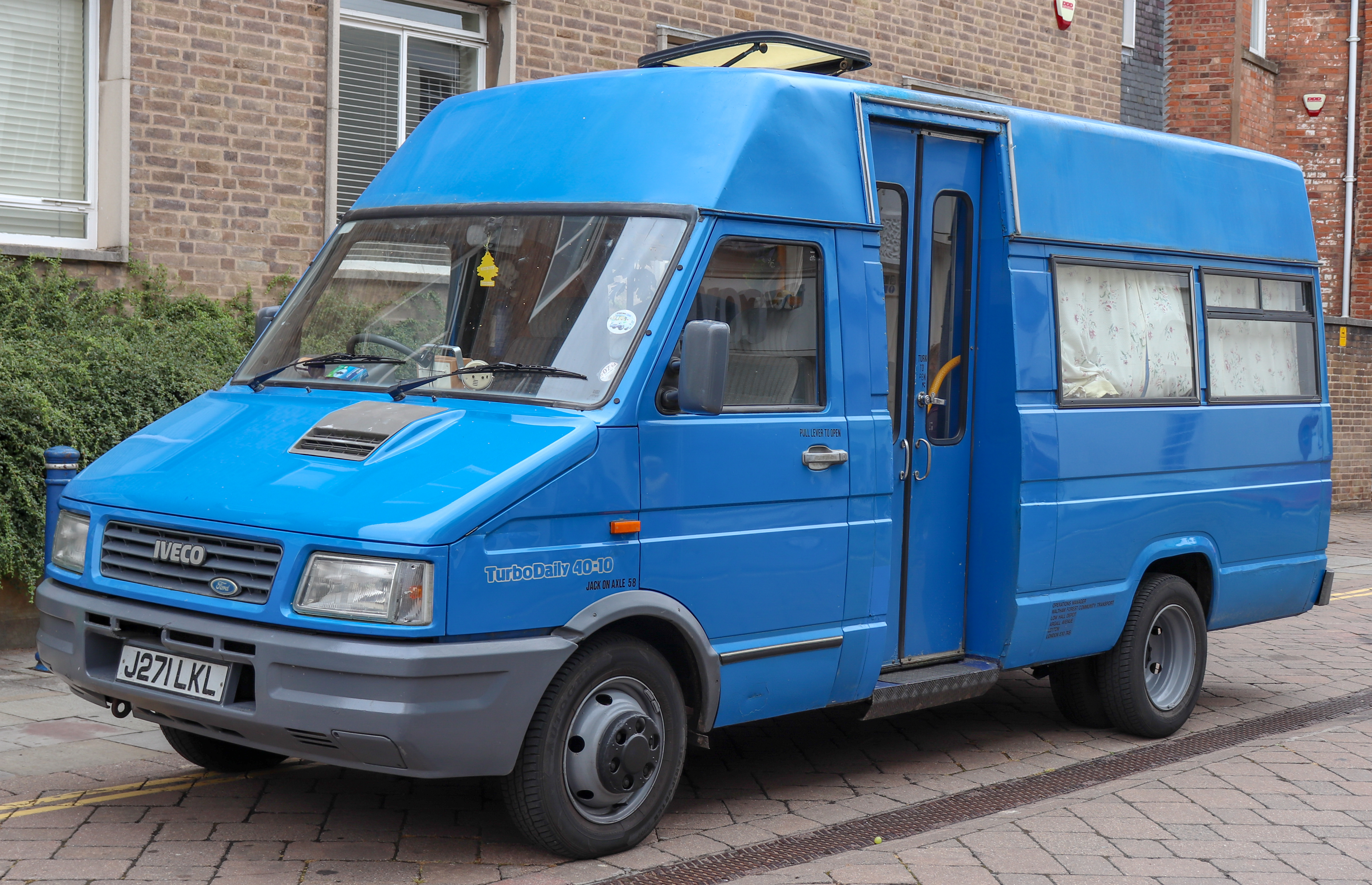 1991 Iveco-Ford TurboDaily 40-10 2.4 Front Taken in Warwick